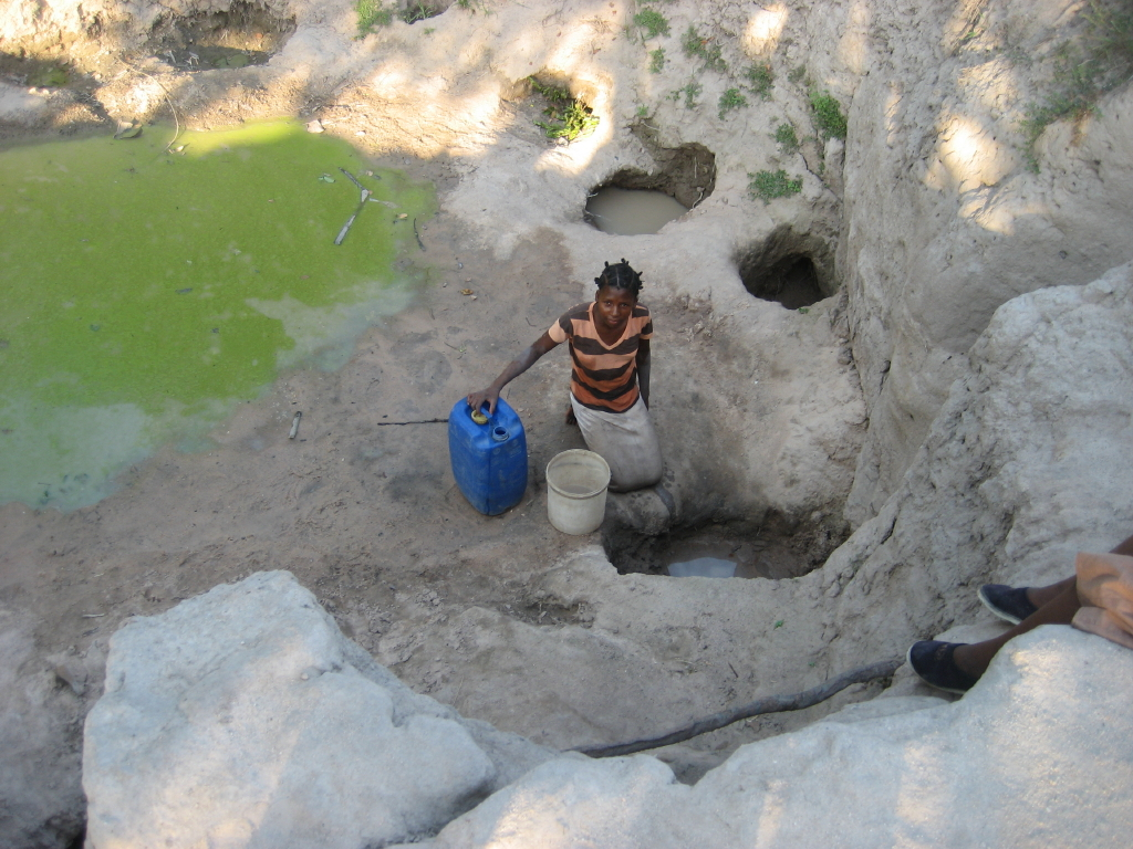 A common scene in dry Machaze district of Mozambique where water for household use is a scarce good. In the dry season women spend several hours per day to get a few buckets of this precious liquid.